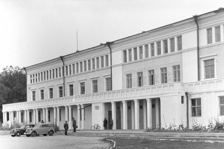 The Red Army House during Nazi occupation of the Ukraine. Build in 1936 by the architect Iosif Karakis.